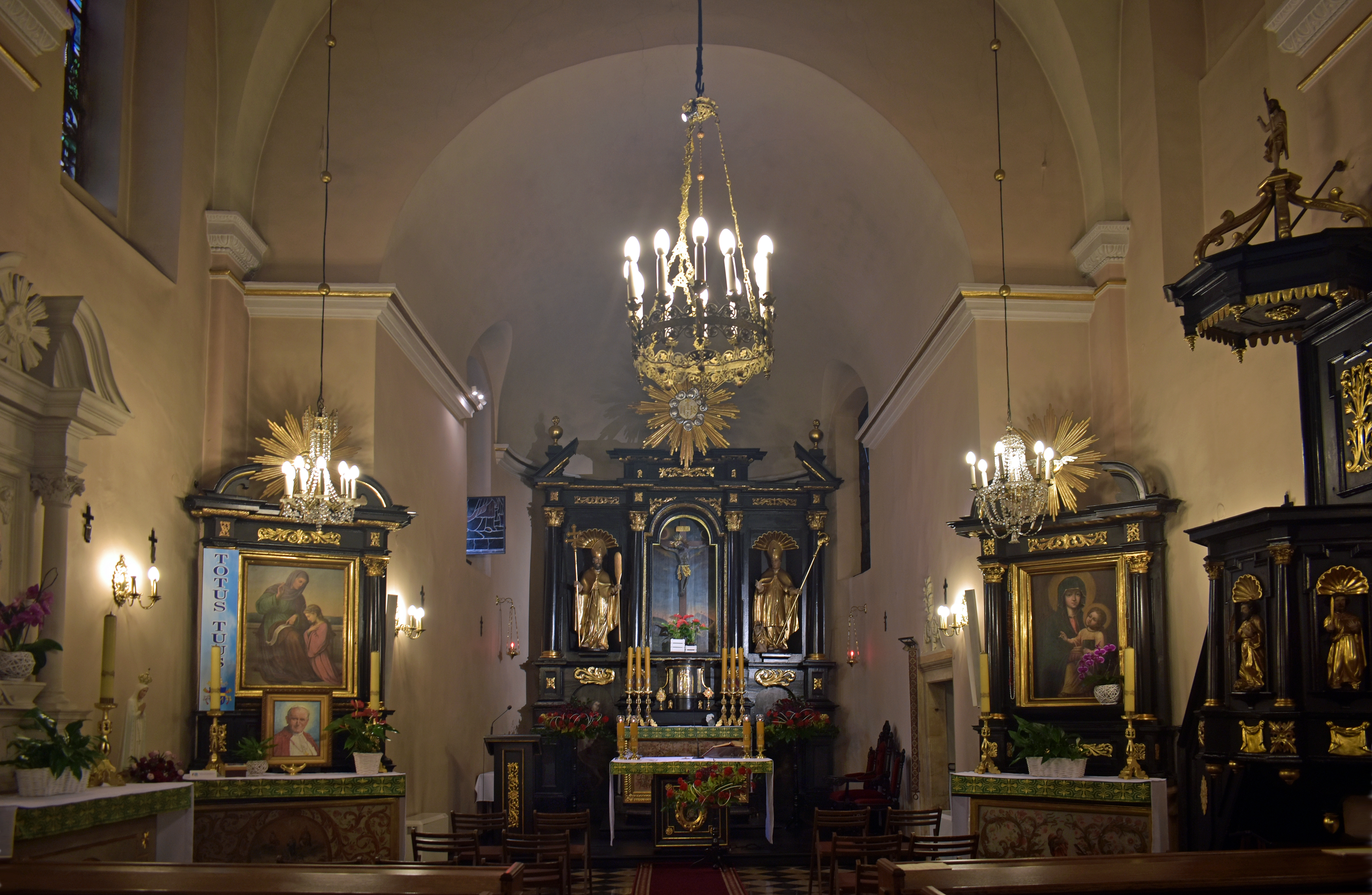 Church of the Divine Mercy (interior), 1 Bozego Milosierdzia street, Smolensko, Krakow, Poland